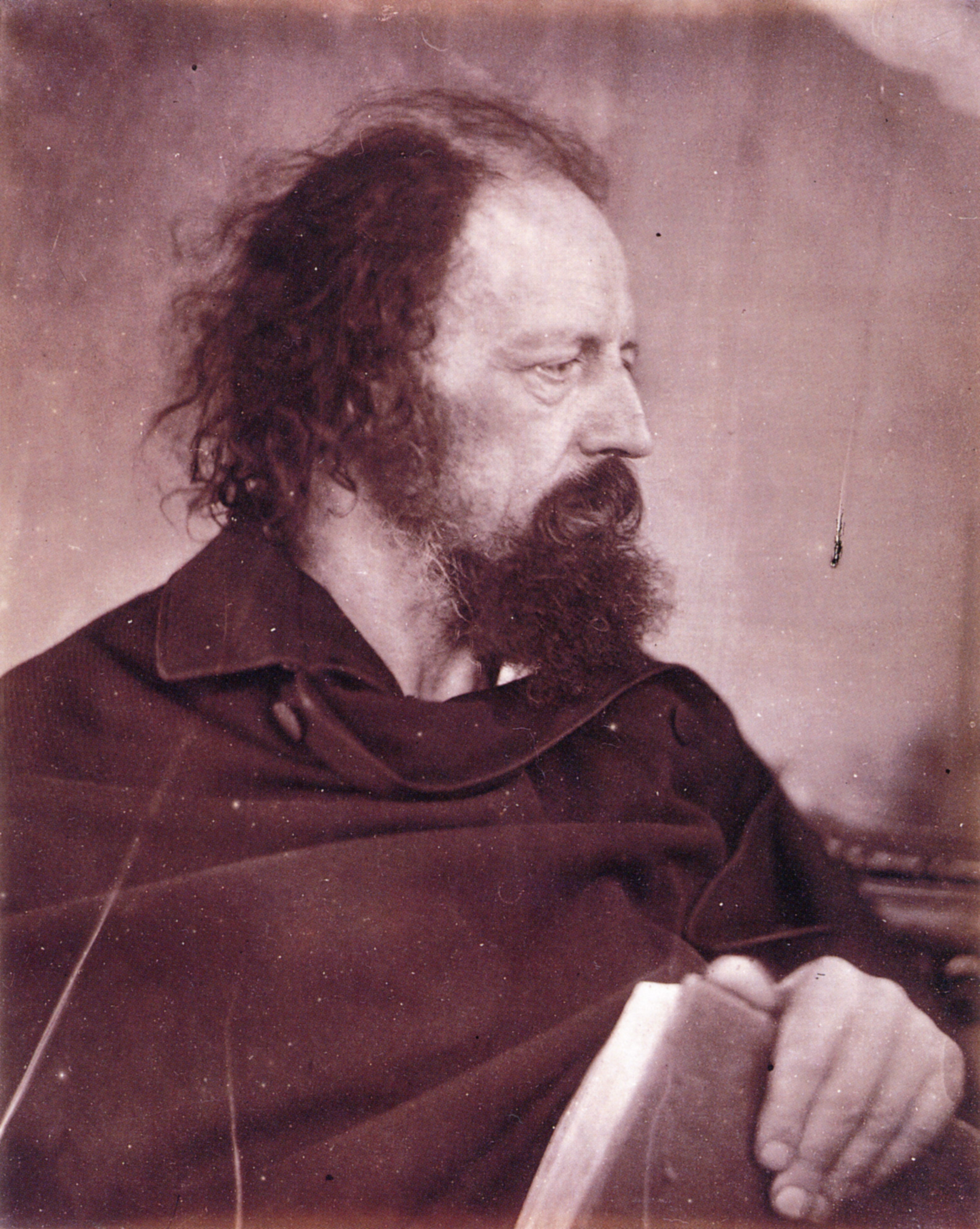 "Alfred Tennyson with book." Tennyson referred to this photo as "The Dirty Monk". Albumen print, 252 x 200mm (9 7/8 x 7 7/8"). National Museum of Photography, Film & Television, Bradford